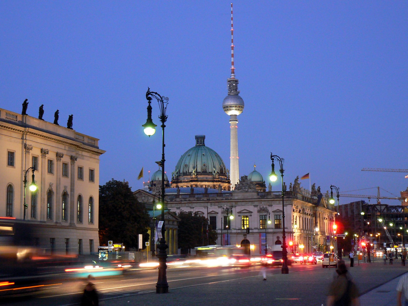 View of Berlin's boulevard Unter den Linden to the Zeughaus (arsenal building), the Berlin Cathedral and the famous TV tower.